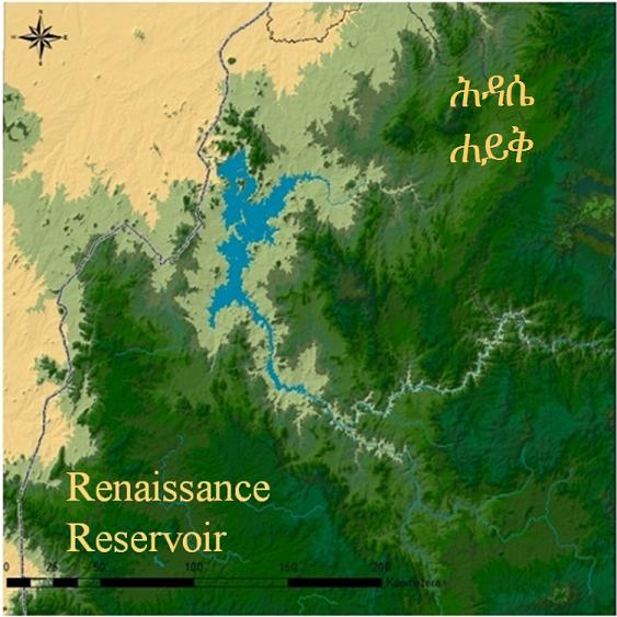 Impounded lake behind Renaissance Dam.